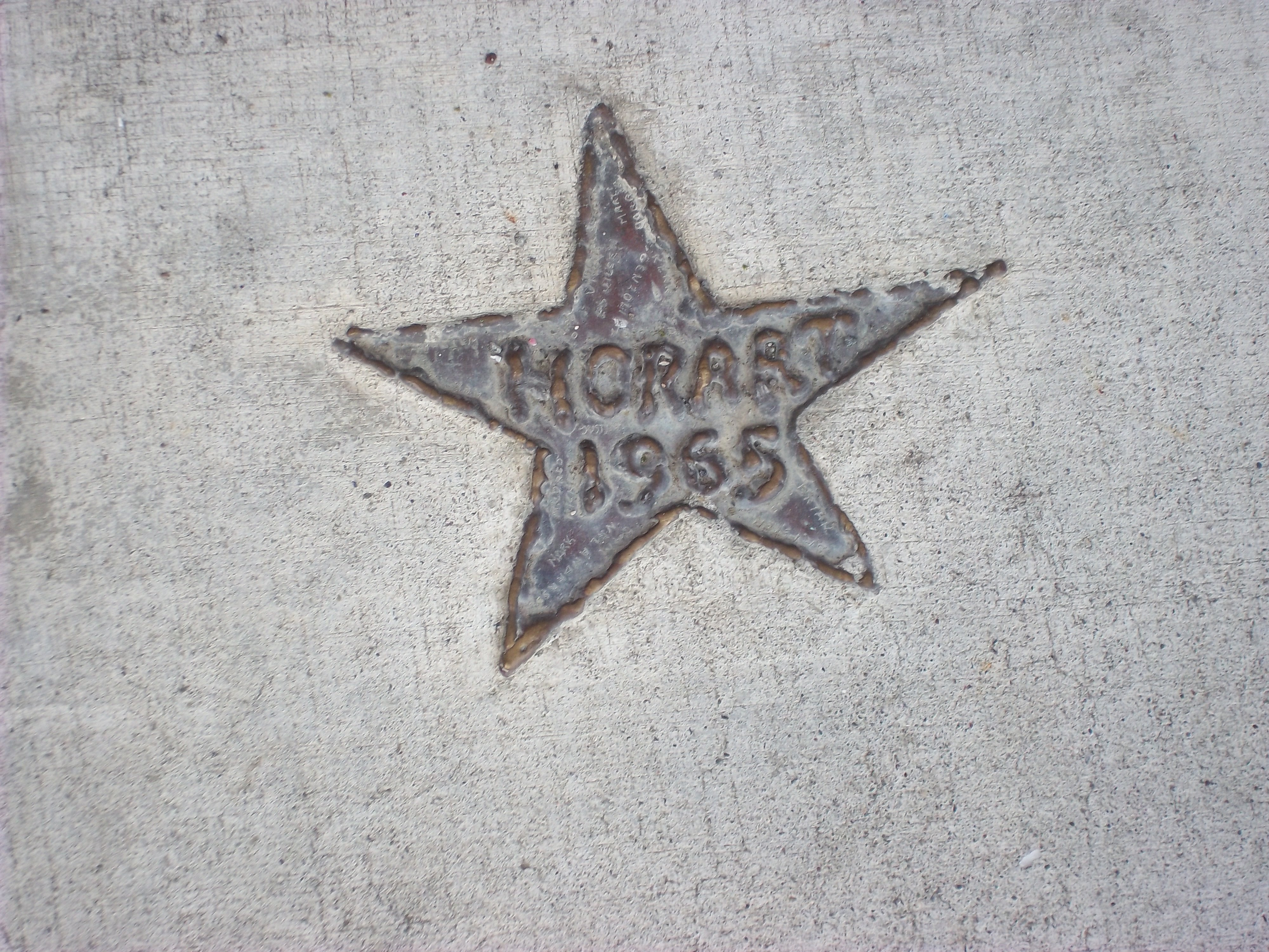 Hobart Brown embedded star in the sidewalk outside of his museum, 'Hobart Galleries' in Ferndale, California, when new sidewalk poured after 1992 Cape Mendocino Earthquakes by Contractor Brian Morrison (Ferndale). Hobart Galleries is no longer open but the star remains in front of the building that once housed it.